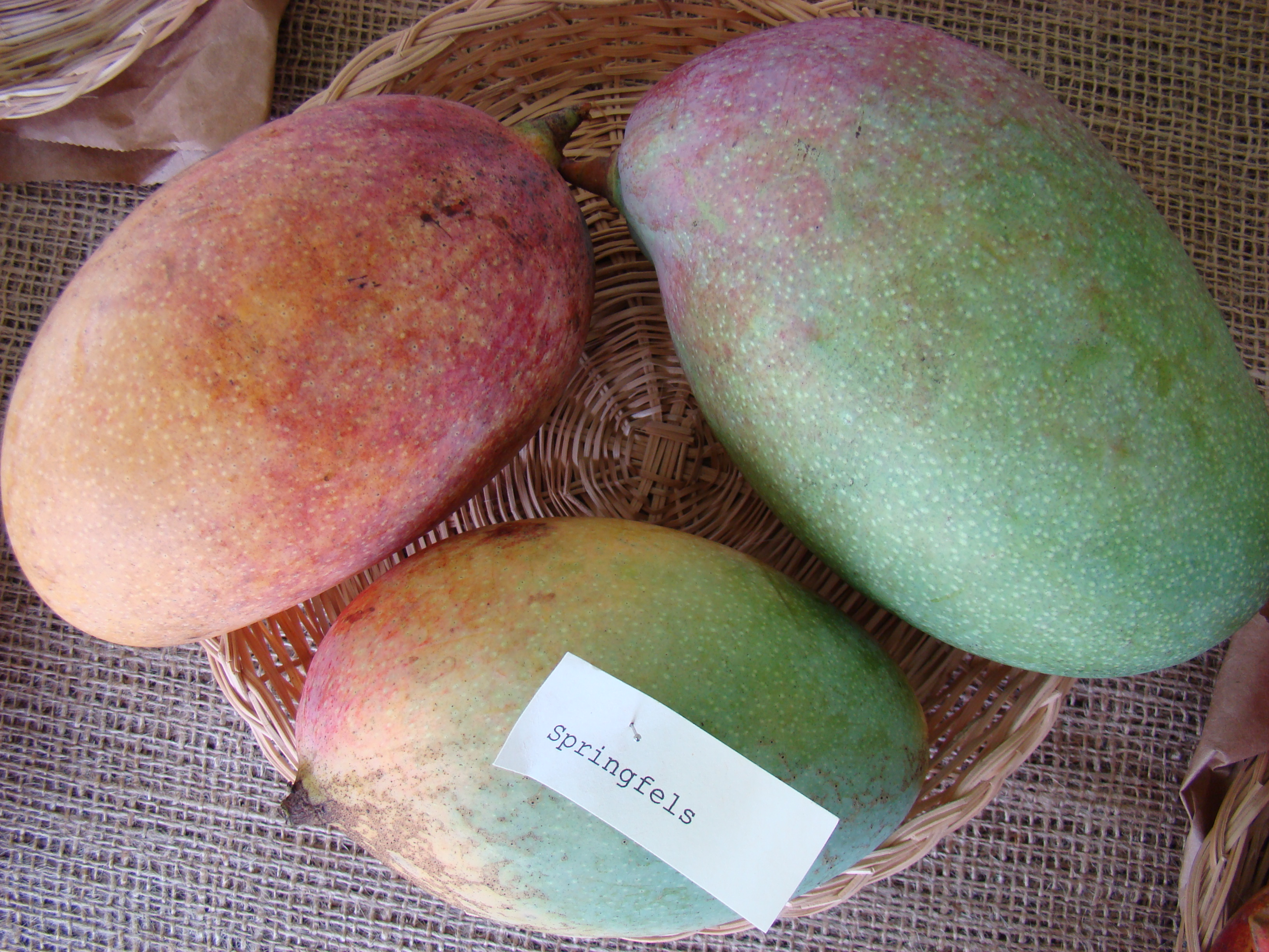 This is a photo of the display of Springfels mango at the Redland Summer Fruit Festival, Fruit & Spice Park, Homestead, Florida.